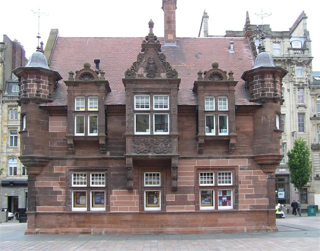 Travel Centre, Glasgow Located at the lower end of Buchanan Street in St Enoch Square. The red sandstone building, which is now used as a “Travel Centre” was constructed in 1896 as the St Enoch Underground Station. The architect was James Miller. The building used to house a booking office and was the office hub of the old Glasgow District Subway Railway Company. This is the world's third oldest tube system (after London & Budapest). The underground is a simple circular route and, when orange trains were introduced by Strathclyde Transport, the "Subway" became familiarly called the "Clockwork Orange" by the natives. At the time of the modernisation the building was raised a few inches in order to accommodate the new station built below it. This station is not to be confused with the former mainline railway station with the same name. That station was originally the mainline terminus for the City of Glasgow Union railway (and thereafter the Glasgow and South Western Railway and then the London Midland and Scottish Railway) and was closed by British Rail in the “Beeching Cuts” in 1966. The station building was then demolished and has now been replaced by a very large shopping centre. Hopefully the same fate will not fall upon this attractive building.